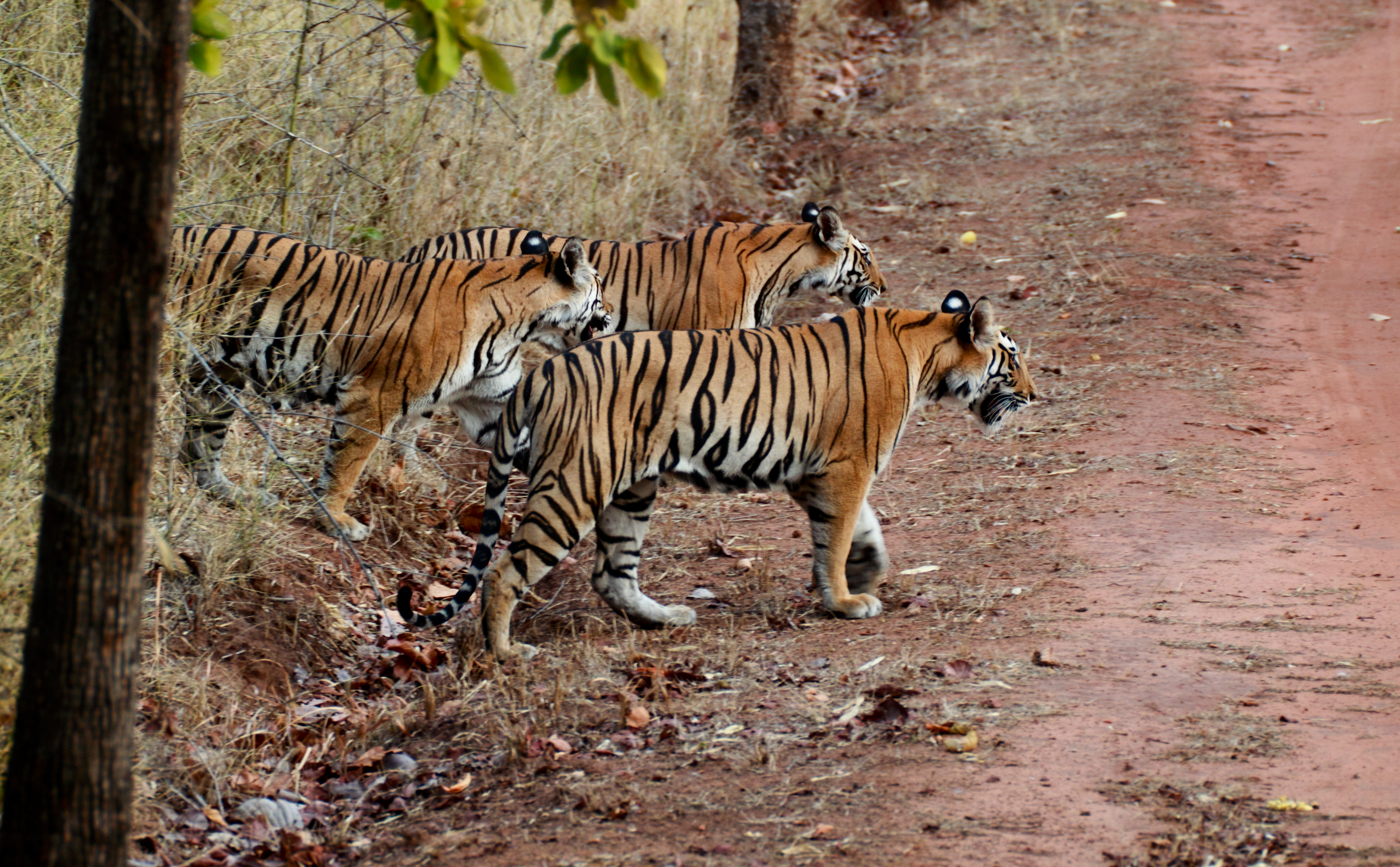 Tigress and cubs